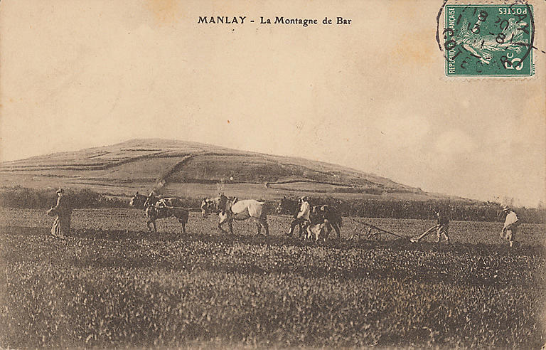 Post card of 1911 of the mountain of Bard at Manlay, France.